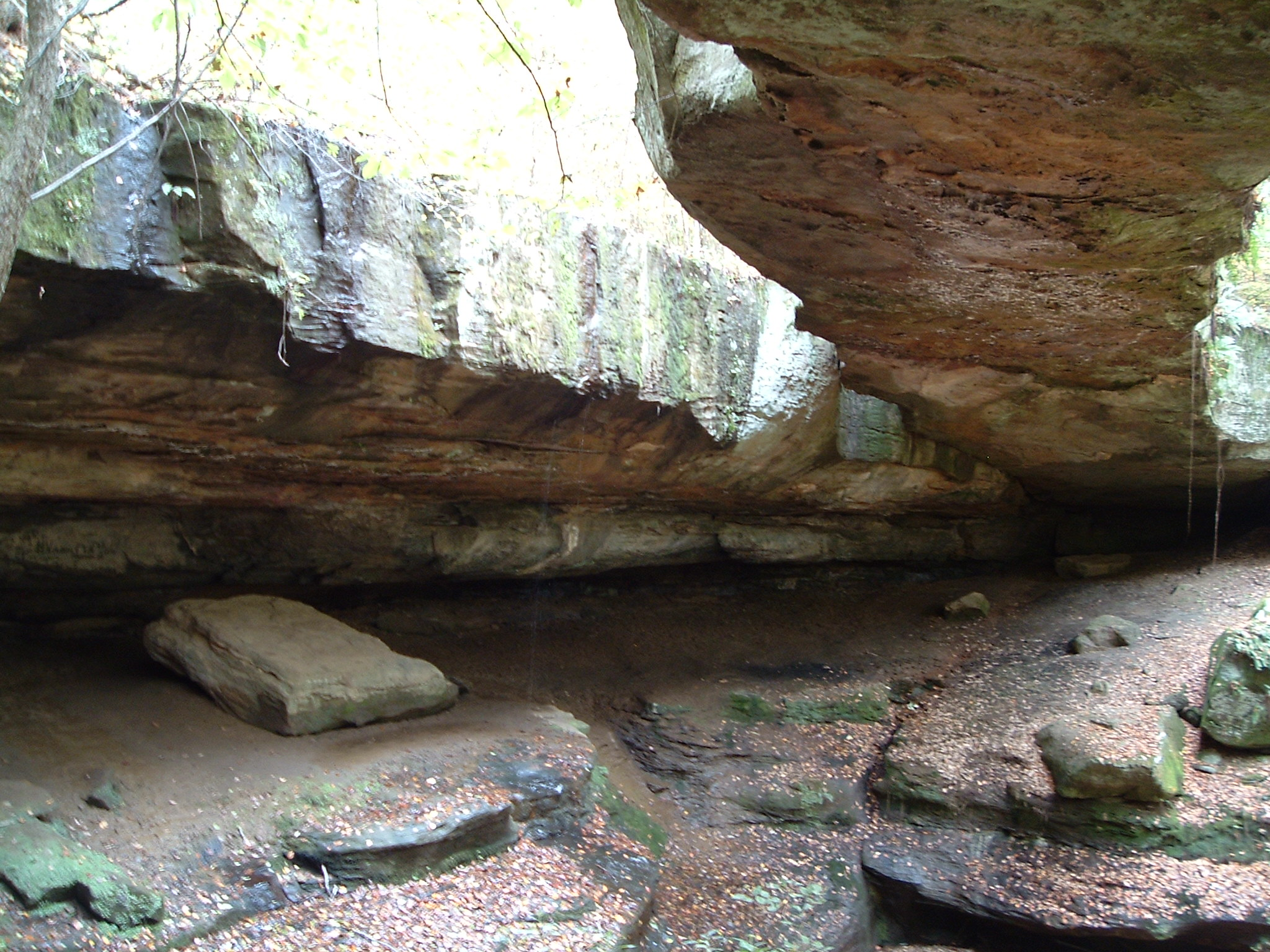 Under the "rock bridge". At Rockbridge State Nature Preserve, Ohio.